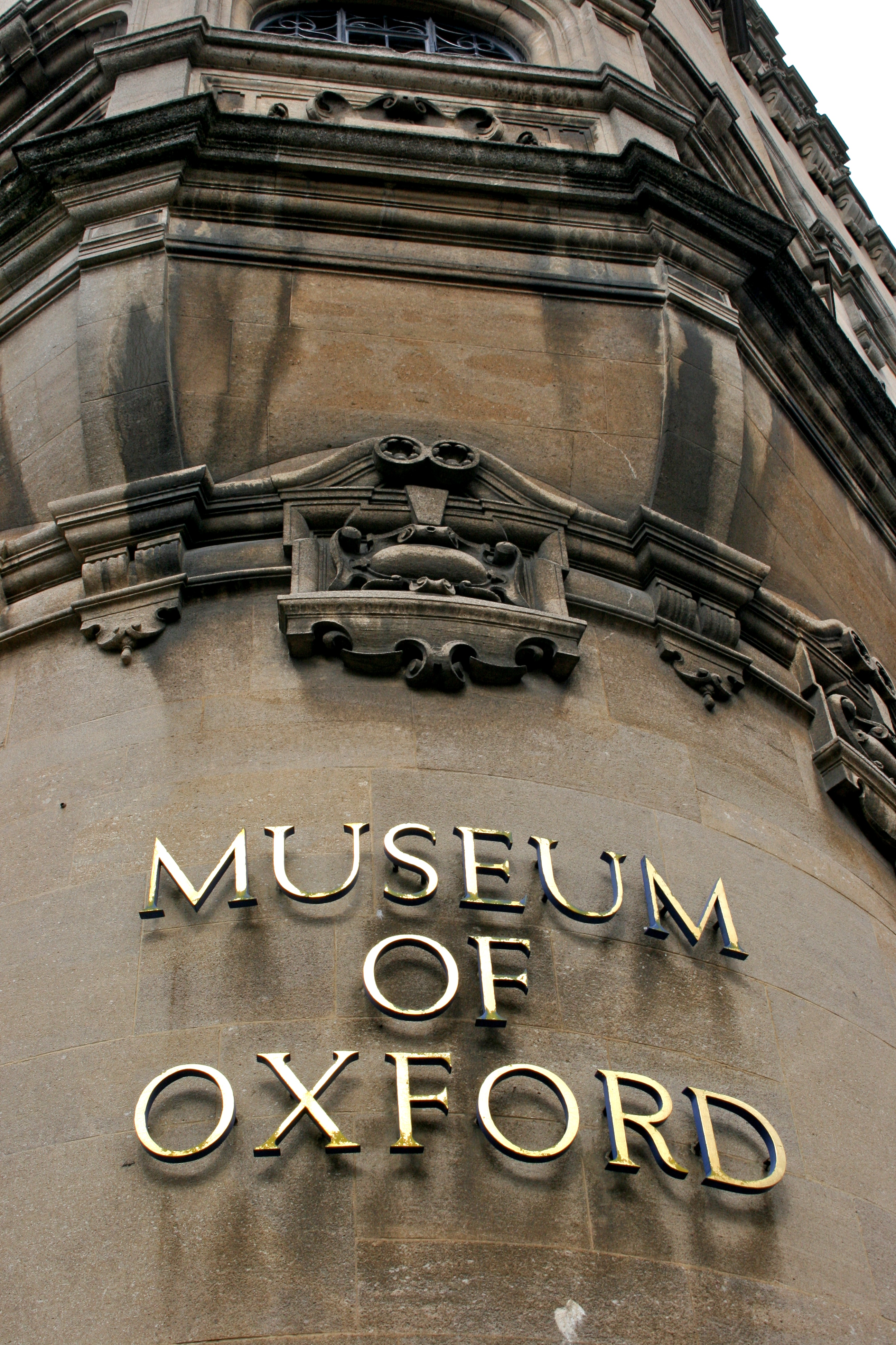 Museum of Oxford text on the side of Oxford Town Hall: St Aldate's Street, Oxford, England.